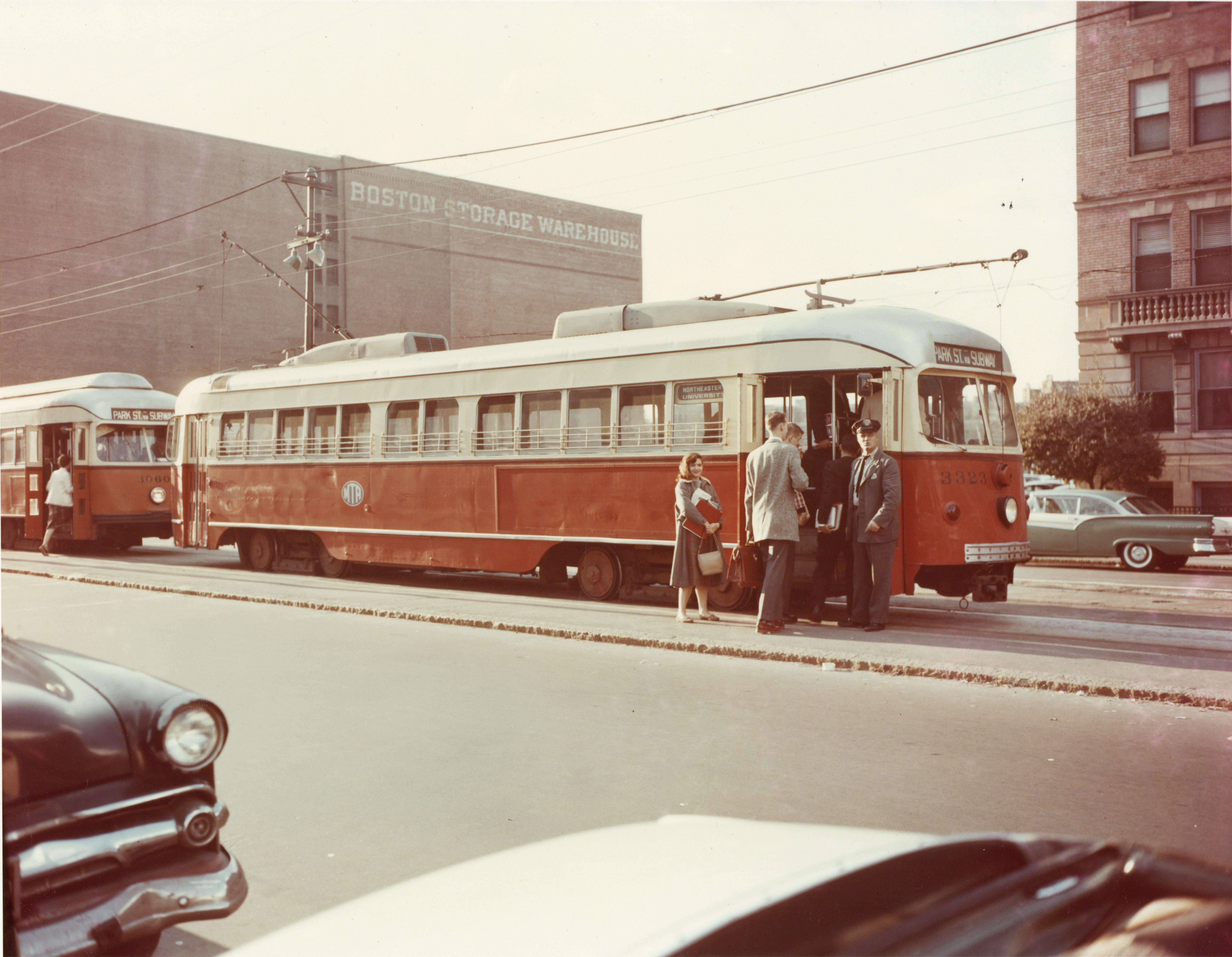 A train of PCC streetcars on Huntington Avenue at Opera Place (later Northeastern University)